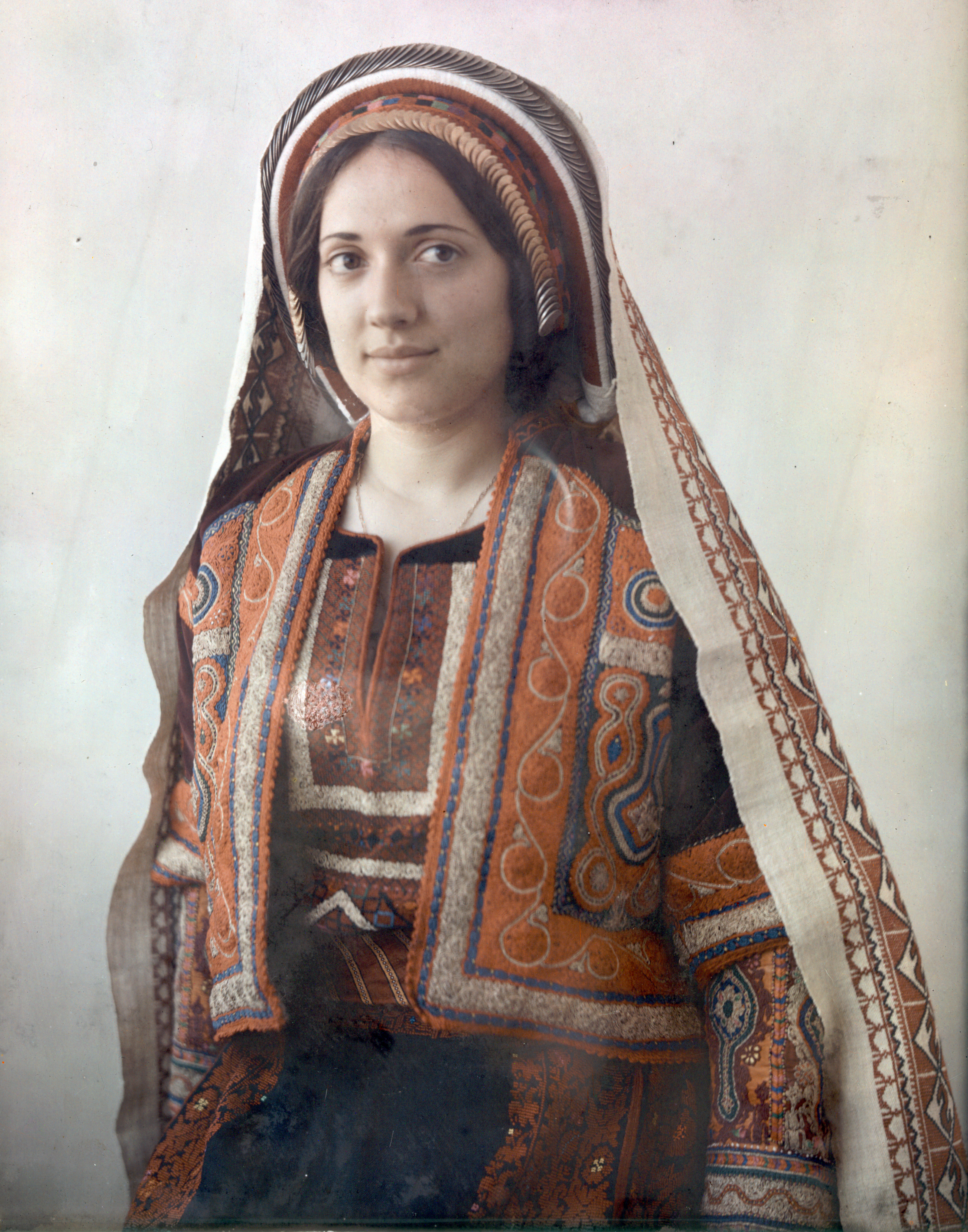 TITLE: [Ramallah woman] CALL NUMBER: LC-M342- 45017-x[P&P] REPRODUCTION NUMBER: LC-DIG-matpc-15029 (digital file from original photo) RIGHTS INFORMATION: No known restrictions on publication. MEDIUM: 1 transparency : film, color ; 5 x 7 in. CREATED/PUBLISHED: [between 1929 and 1946] NOTES: Taken either by the American Colony Photo Department or its successor, the Matson Photo Service. Title devised by Library staff. Title and date based on caption for similar image (LC-M342-45015-x). Gift; Episcopal Home; 1978. SUBJECTS: West Bank--Rām Allāh. FORMAT: Screen color film transparencies Color. PART OF: G. Eric and Edith Matson Photograph Collection REPOSITORY: Library of Congress Prints and Photographs Division Washington, D.C. 20540 USA DIGITAL ID: (digital file from original photo) matpc 15029 CONTROL #: mpc2007010263/PP